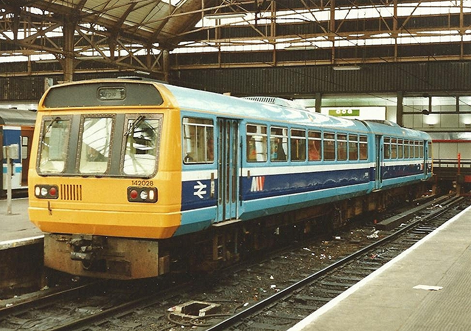 BREL (Derby)/Leyland Class 142 "Pacer" 2-car DMU No.142 028 of BR Regional Railways.Manchester PTE in PTE-branded BR Provincial Sector livery at Manchester Piccadilly on a Marple service, 10/92.Scanned from one of my photographs taken on a Canon ES-1 Programme. The unit is a rare example of the short-lived Network NorthWest brand launched by Regional Railways in 1989.